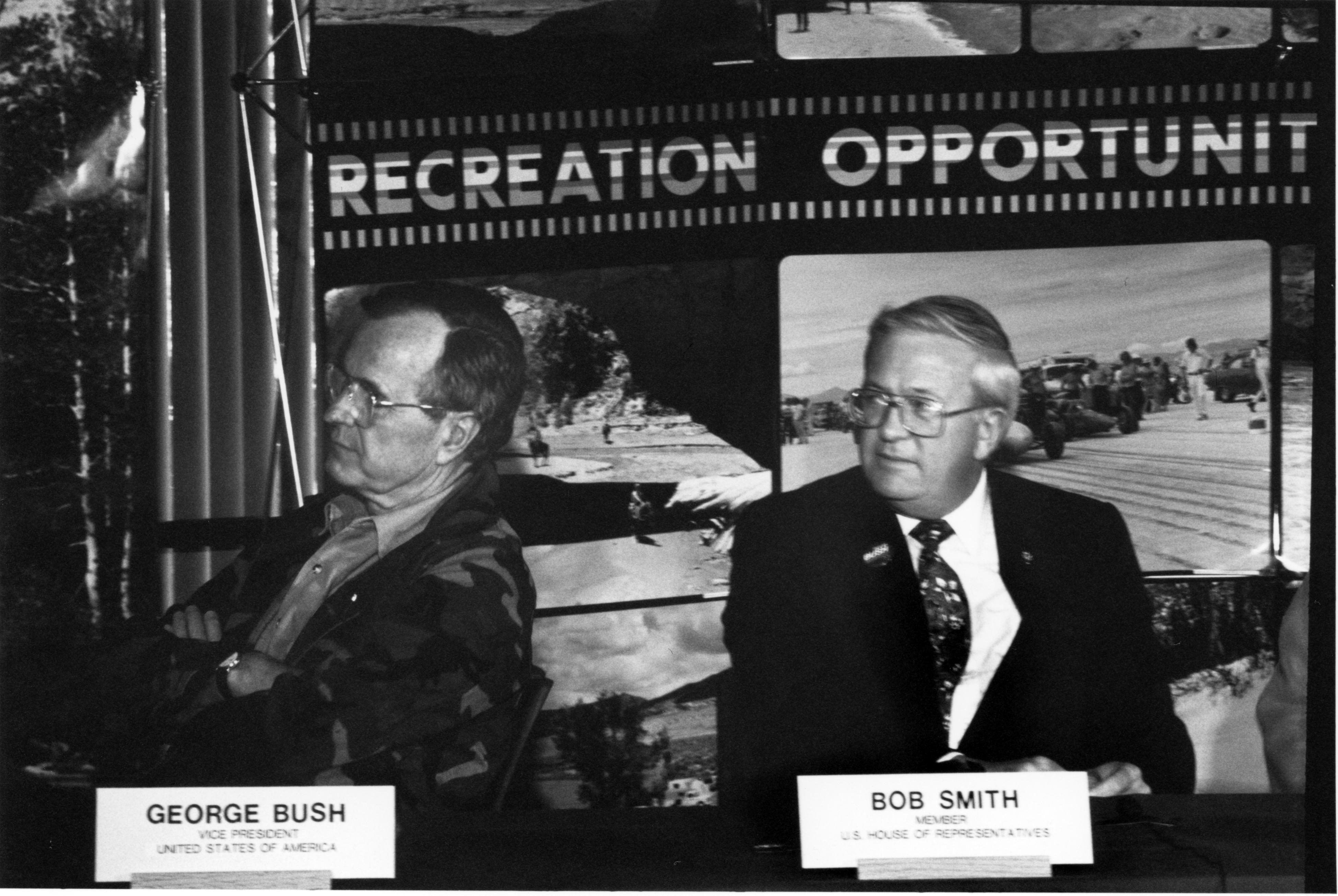 During the 1988 presidential campaign, incumbent Vice President George H.W. Bush stopped in Medford, Oregon, making time to fish the mighty Rogue River. The vice president arrived May 14, held a public BLM meeting, then the next morning fished from a drift boat for about 3 hours, May 15, 1988, but caught no fish, according to multiple media reports. An onlooker asked Bush if caught any salmon and he responded: “Gosh, I was afraid you’d ask that,” reported the Medford Mail Tribune. “We had a good time though, being out on this beautiful river.” During the vice president’s short stay in southwest Oregon he repeatedly told the travelling press corps about his fondness for outdoor recreation, and wryly said he was a much better fisherman than his Democratic opponent, Michael Dukakis. "I like the outdoors. I like sports. I like outdoor recreation. I like the outdoor life you enjoy so much out here," said Bush, as quoted in the L.A. Times.